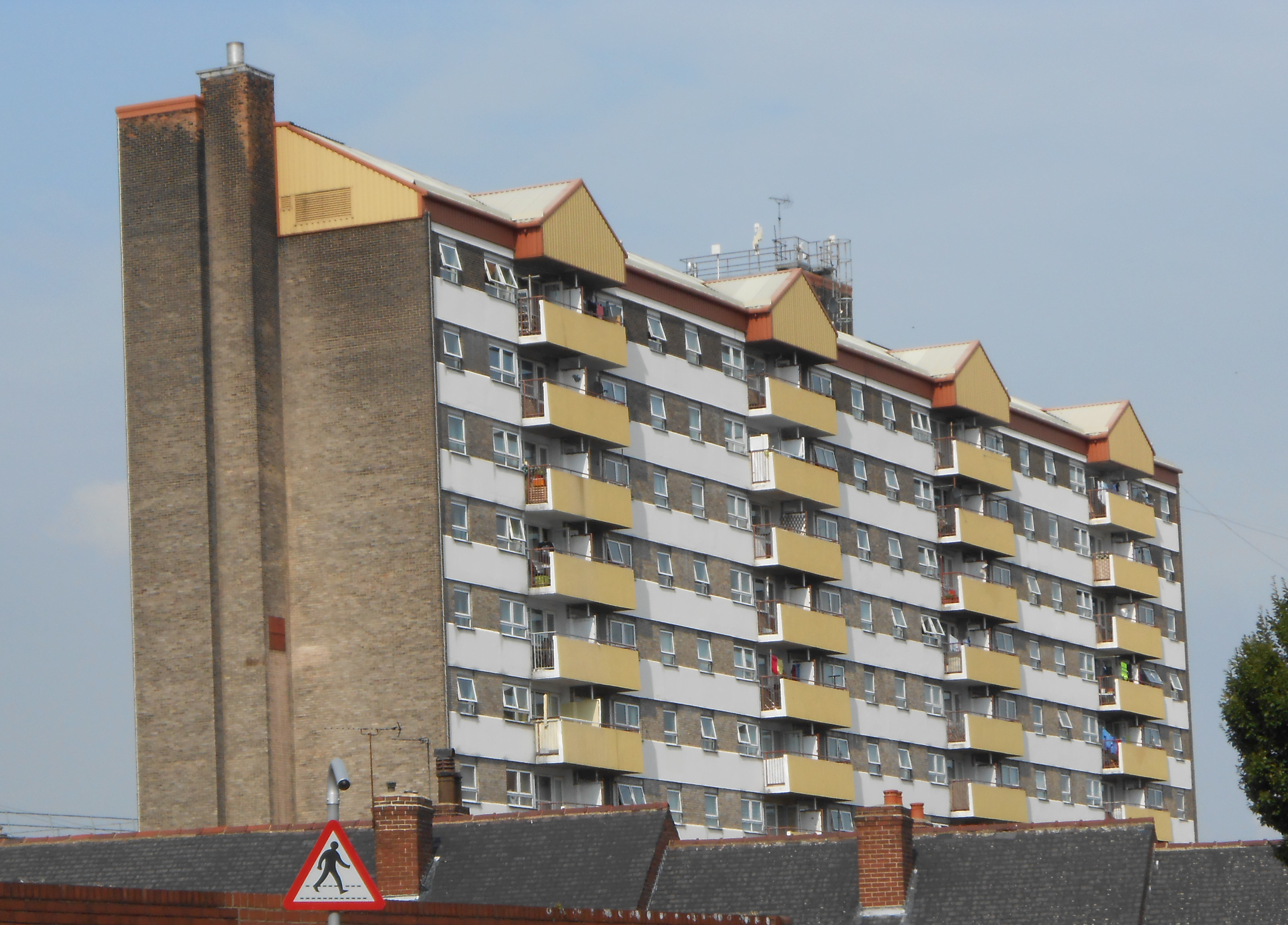 Luke Williams House, Pontefract, West Yorkshire, England.